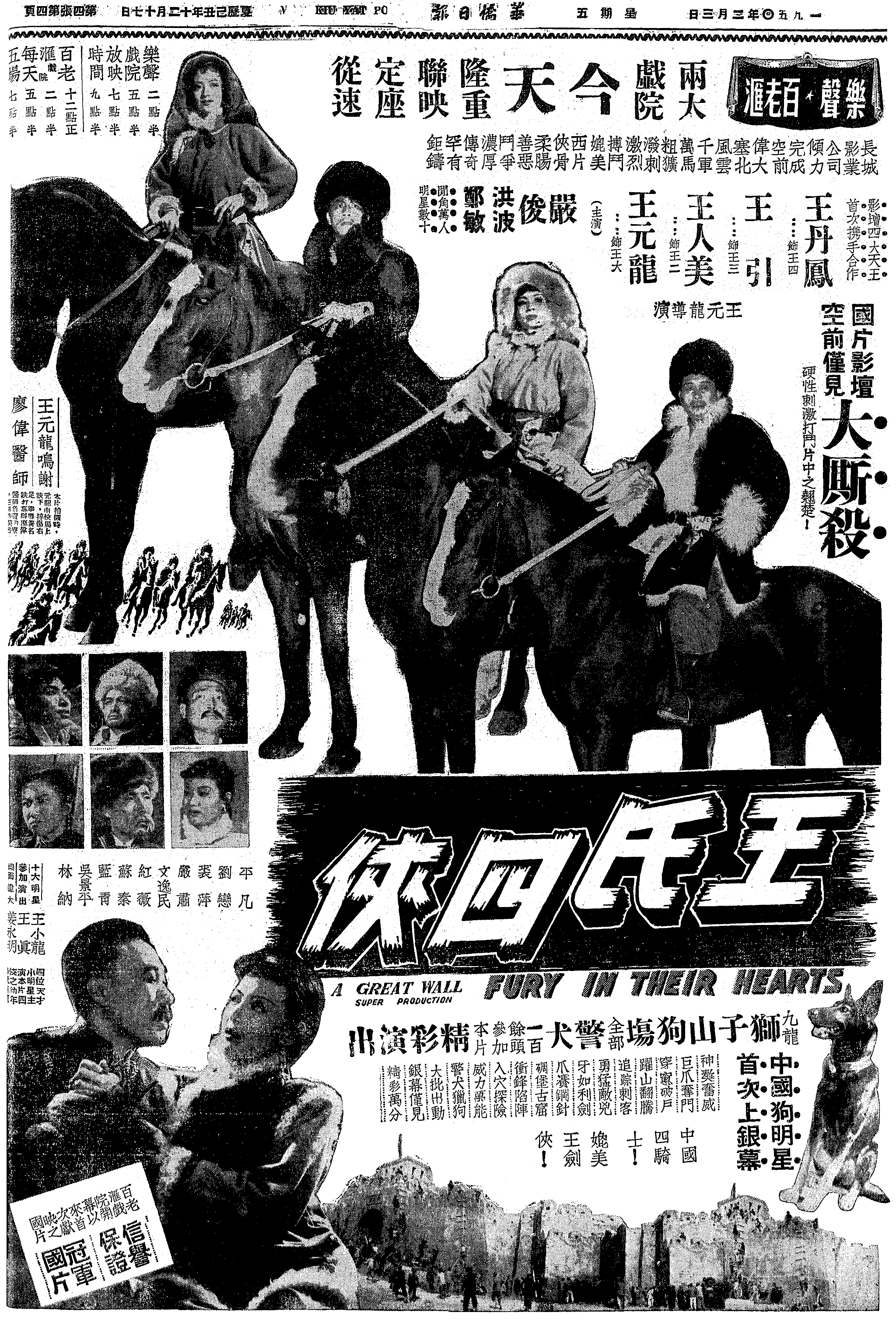 Advertisement of Hong Kong Movie Fury in their Hearts (1950) 中文（香港）: 香港電影《王氏四俠》（1950年）的廣告